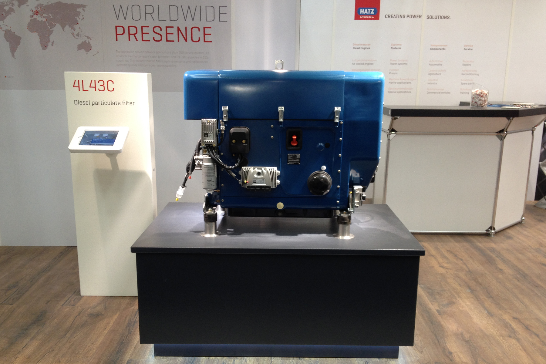 Hatz Diesel 4L43C industrial diesel engine with DPF